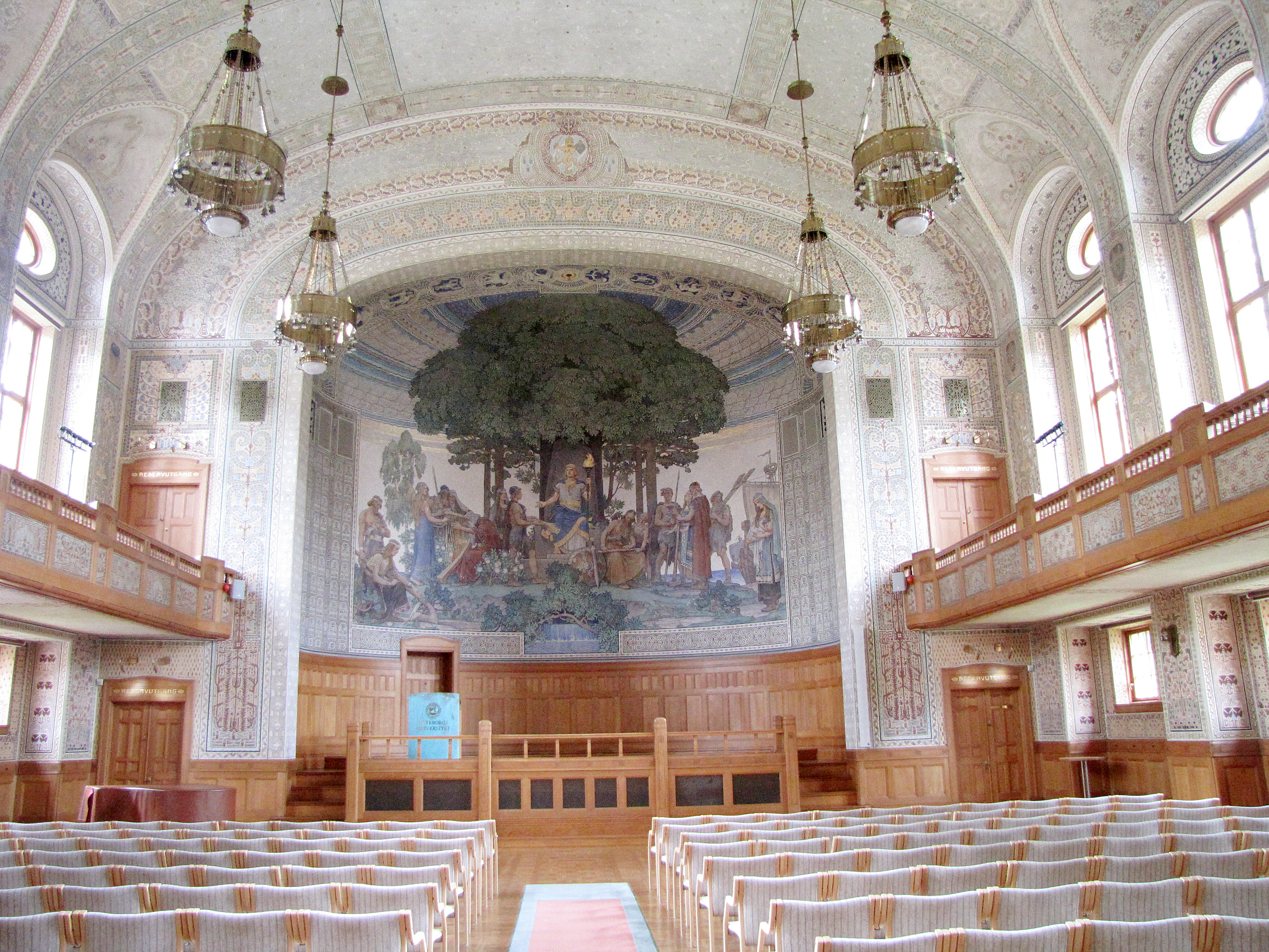 The main administration building of the University of Göteborg: The large lecture hall, seen from the entrance.